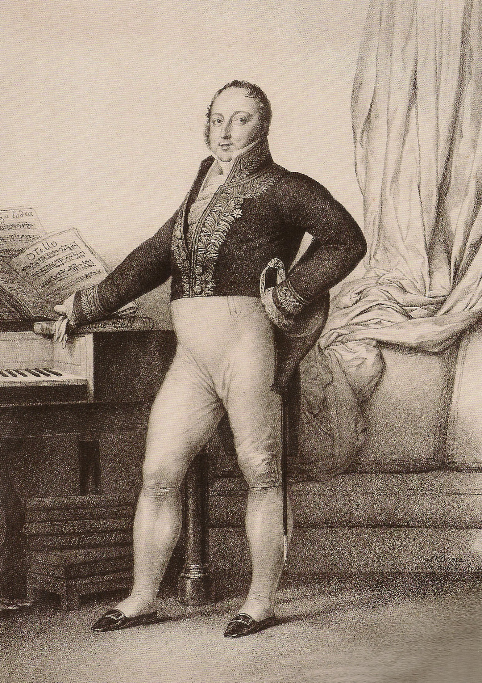 Rossini-1829 (Litho Charlet Ory)